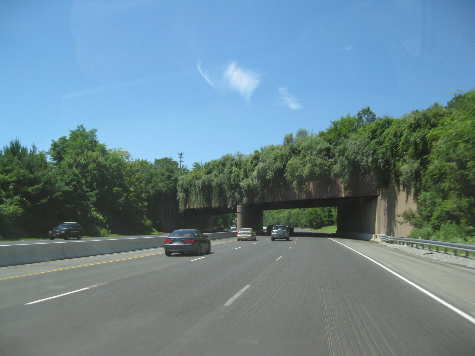 Interstate 78 - New Jersey across the Watchung Reservation